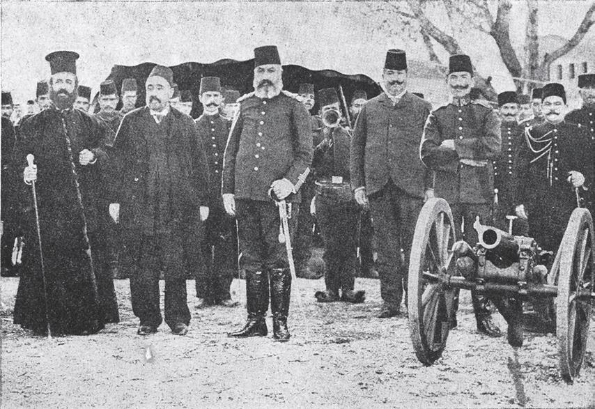 Germanos Karavangelis (bishop of Kastoria and leader of andarts) together with Ottoman officers